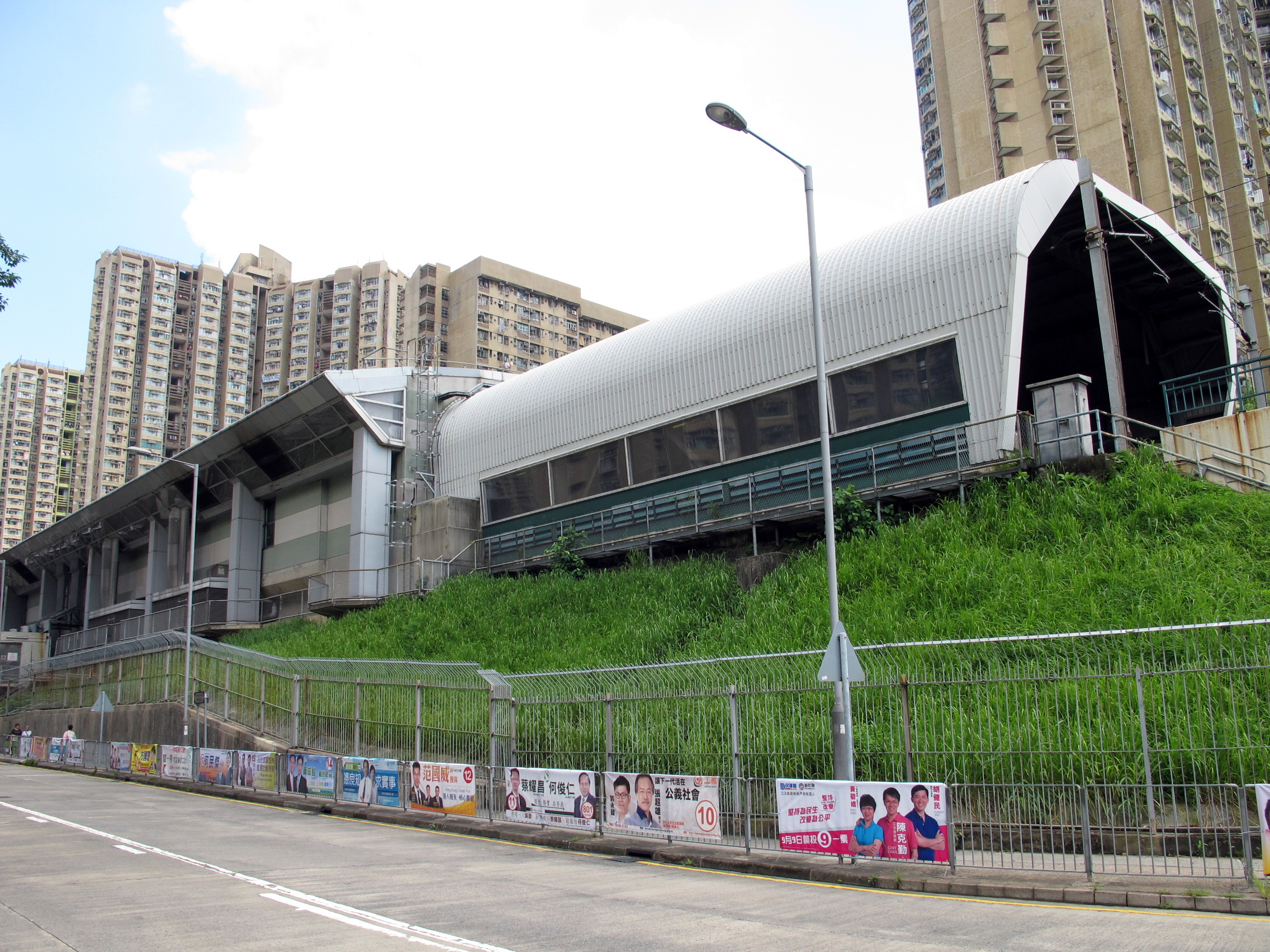 Tai Wo Station Outside View